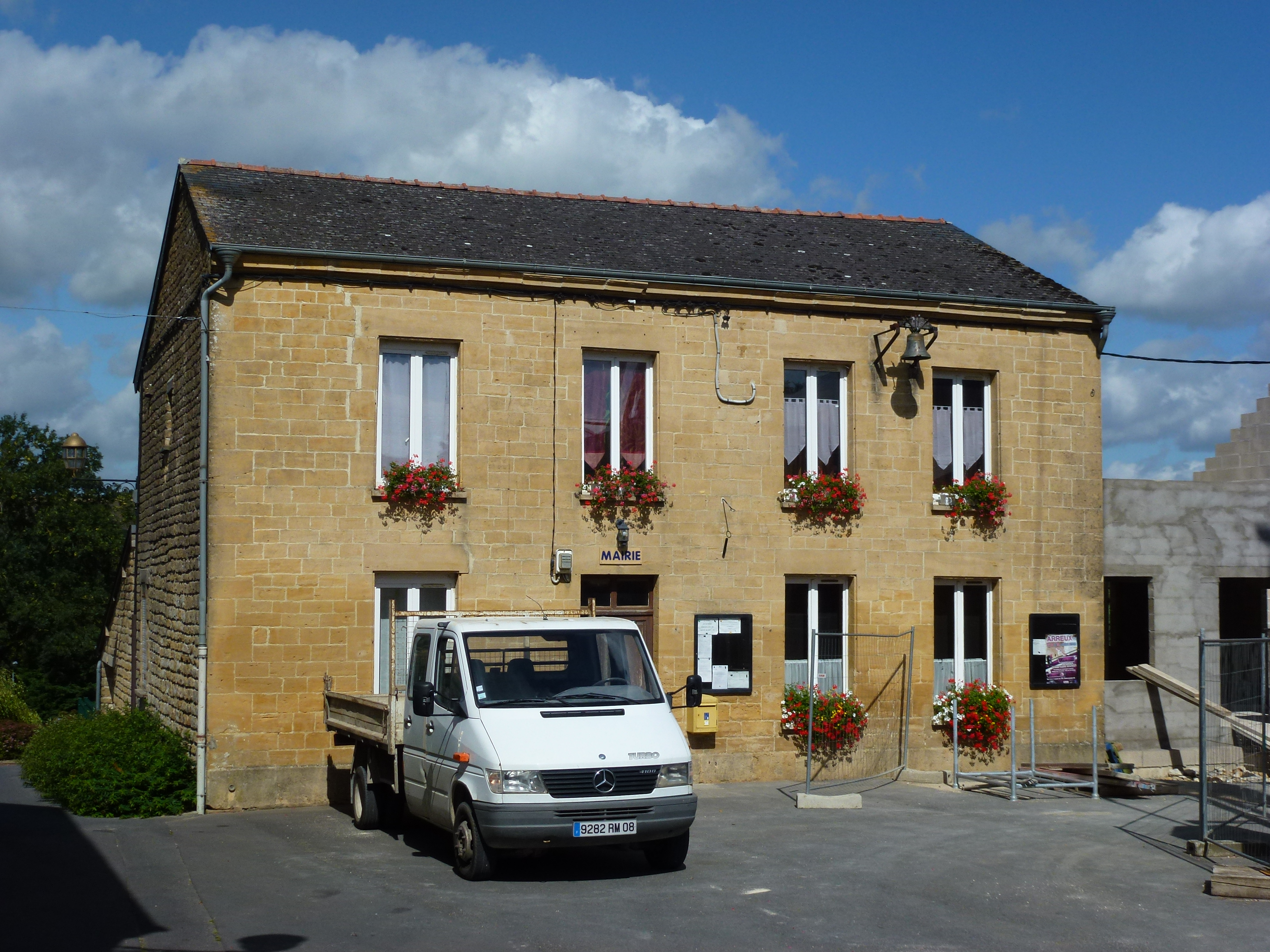 Saint-Marcel (Ardennes) mairie